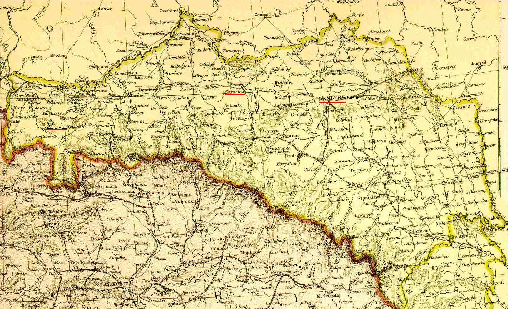 Map of Galicia in 1800